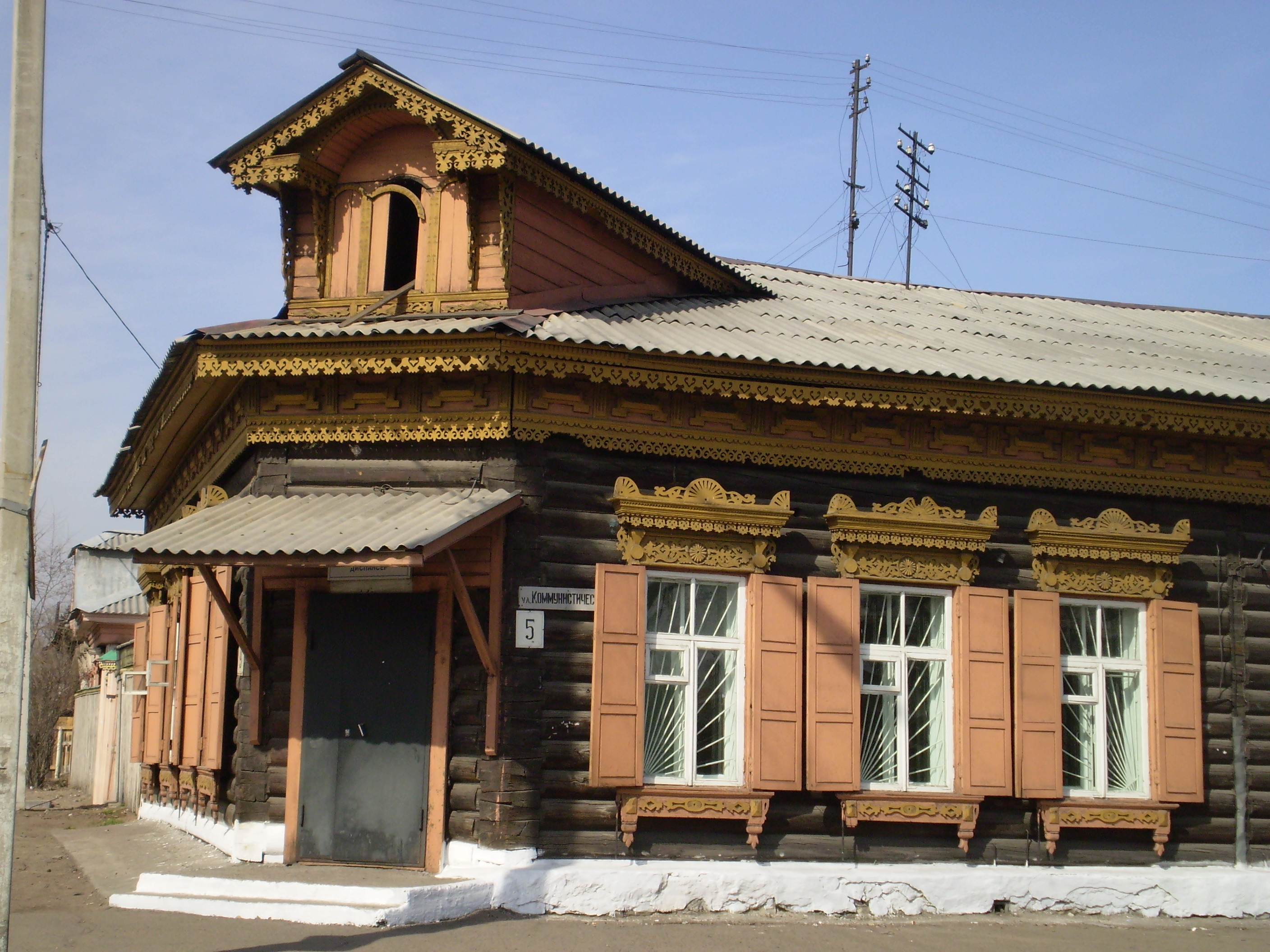 Улица Коммунистическая 5.